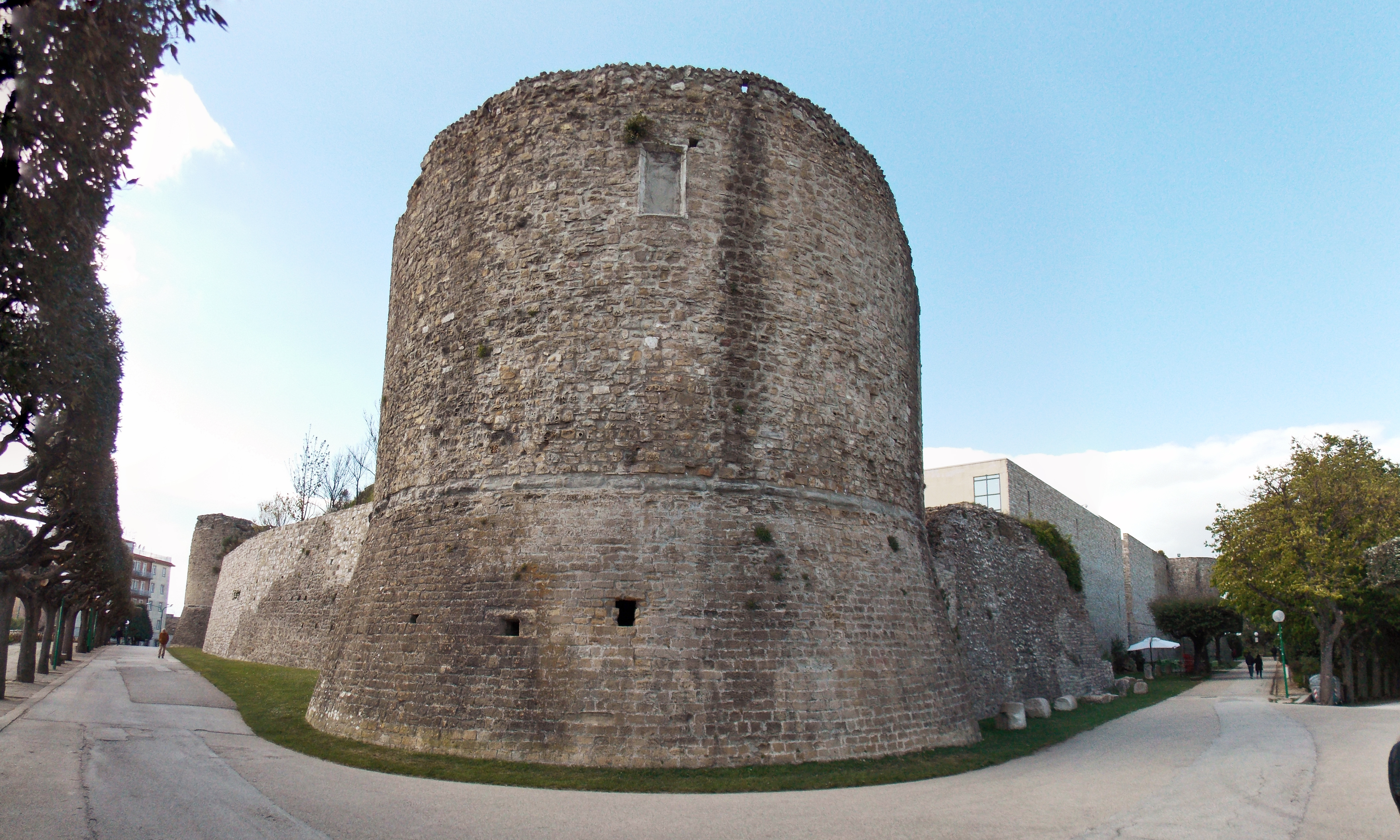 Wide-angle view of the medieval castle in Ariano Irpino (Italy) from the southern tower